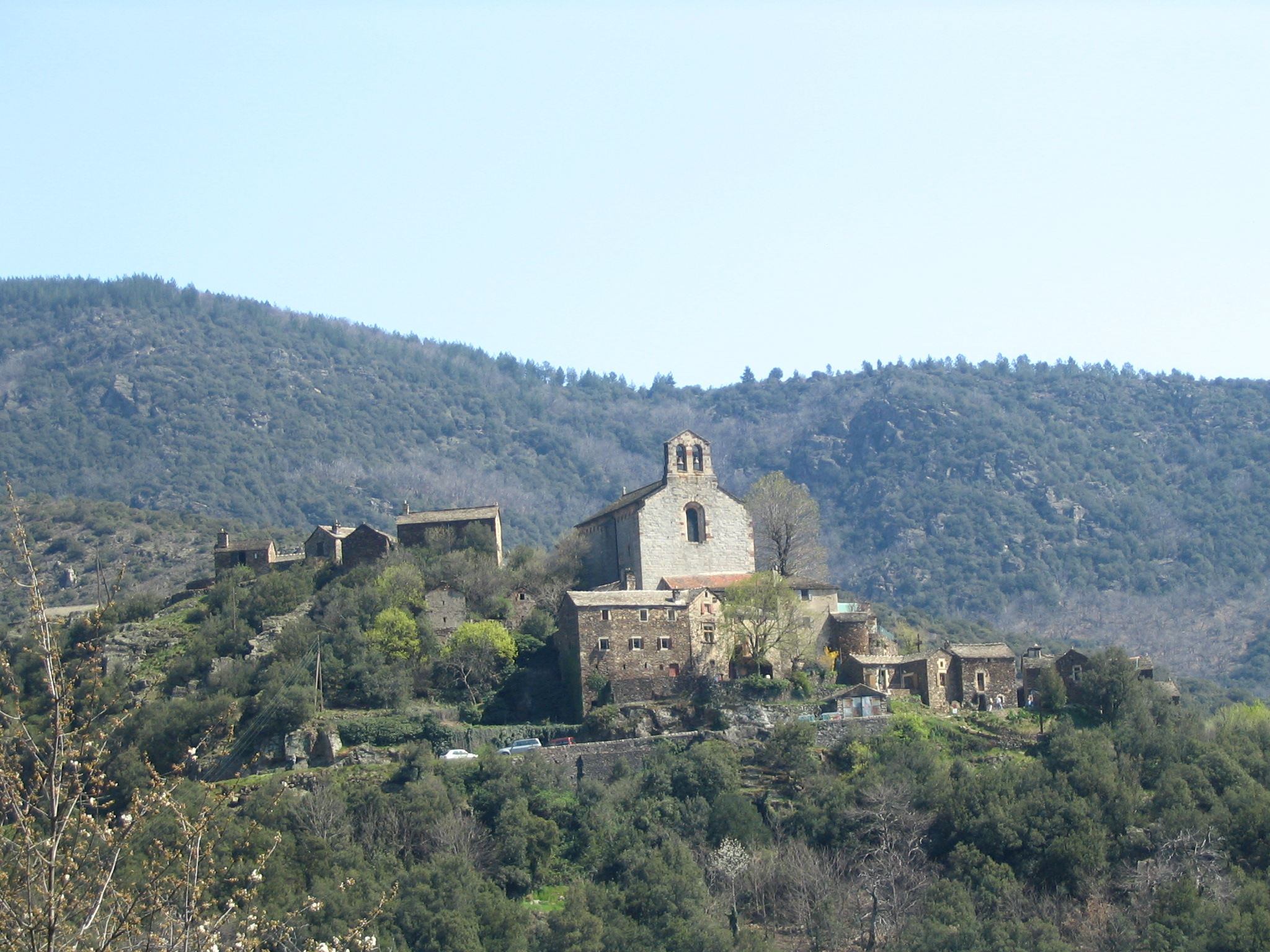 The historical Thines in the Thines valley in the Ardèche region, France